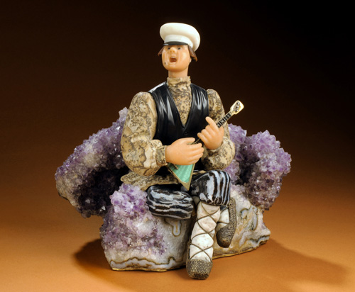 The gem sculpture "Spring" (1984) by Vasily Konovalenko. This image is from the image archives of the Denver Museum of Nature and Science, Denver, Colorado USA. Archive file name IV.DMF.1-14.m.jpg. Catalog number DMF.1-14.m. The sculpture, along with about 20 others, is on display at the Museum. Used in the Wikipedia page Vasily_Konovalenko.